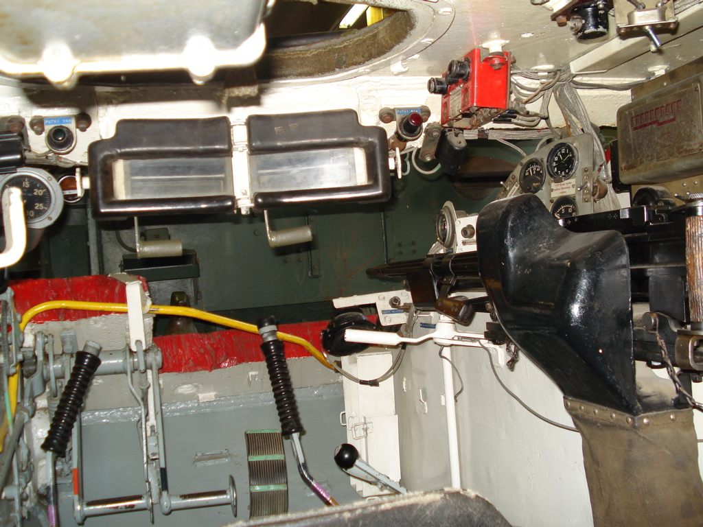 Russian T-54 tank, used by Finland. This model was cut open in for training purposes. Various systems of the tank have been illustrated with different colors. Finnish Tank Museum (Panssarimuseo) in Parola. Photo taken on July 14, 2006. Source: Photo by me, User:Balcer.